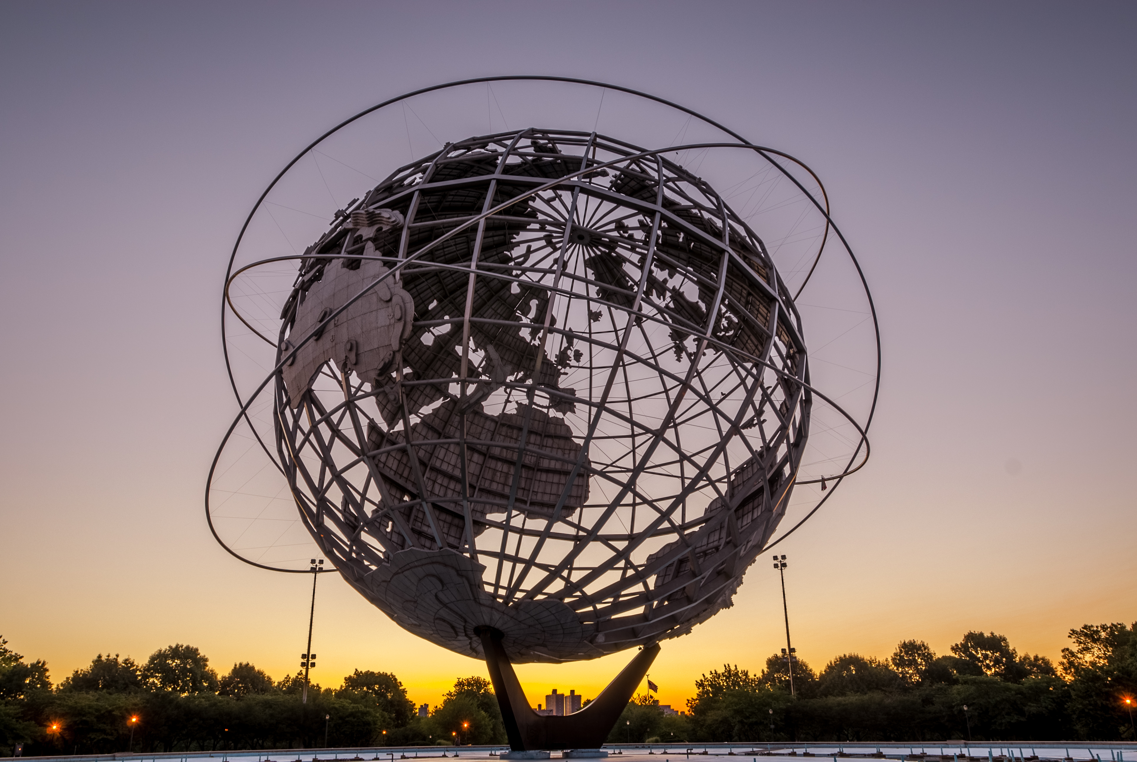 Unisphere in Corona Flushing Meadow Park